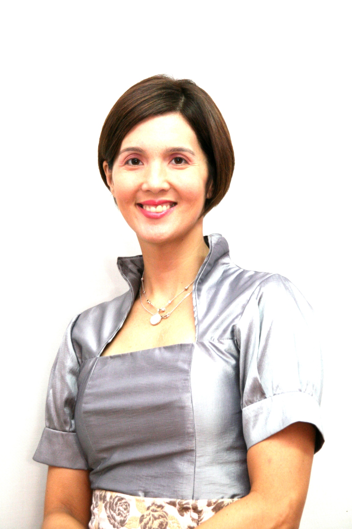 Photo of Philippine Senator Pia S. Cayetano